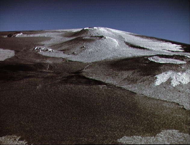 This is a three dimensional perspective view of Isla Isabela in the western Galapagos Islands. It was taken by the L-band radar in HH polarization from the Spaceborne Imaging Radar-C/X-Band Synthetic Aperature Radar on the 40th orbit of the Shuttle Endeavour. This view was constructed by overlaying a SIR-C radar image on a U.S. Geological Survey digital elevation map. The image is centered at about .5 degrees south latitude and 91 degrees West longitude and covers an area of 75 km by 60 km. This SIR-C/X-SAR image of Alcedo and Sierra Negra volcanoes shows the rougher lava flows as bright features, while ash deposits and smooth Pahoehoe lava flows dark. The Jet Propulsion Laboratory alternative photo number is P-43938.